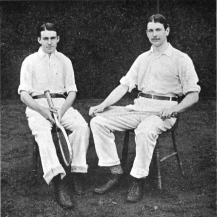 left: Holcombe Ward right: Dwight F. Davis